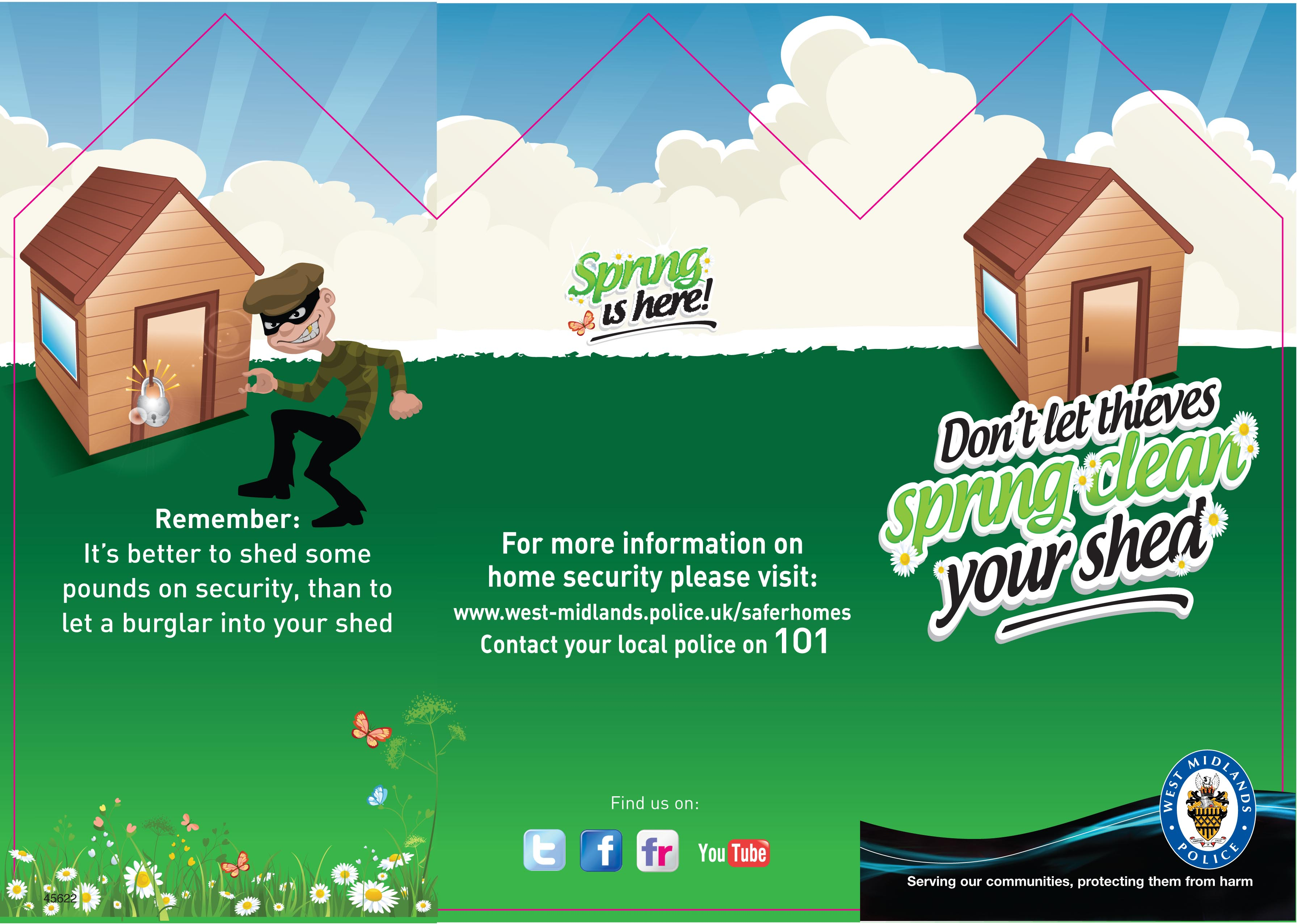 Lighter Nights Spring Campaign - advice leaflet (front cover). The aim of this eye catching shed-shaped leaflet is to provide some simple security tips that can make all the difference when it comes to protecting your shed and its contents from thieves. At this time of year, reports of shed breaks are known to rise. Visit for more spring crime reduction advice. For more home security advice, visit